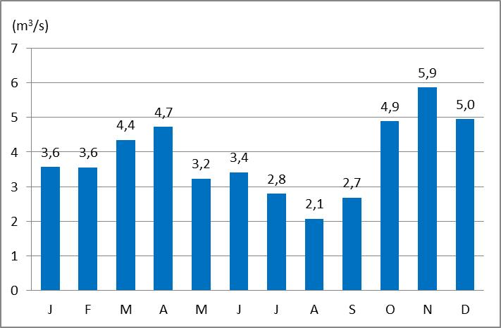 Average monthly discharges of Bolska River at the gauging station Dolenja vas in 1971–2000